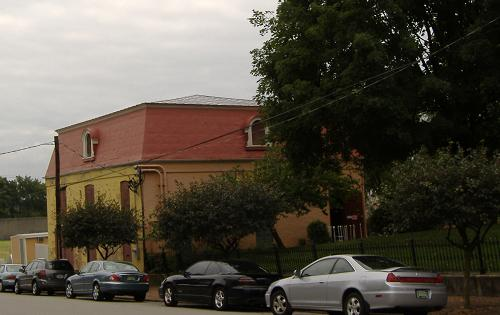 The carriage barn, used as a haunted house, at the Culbertson Mansion State Historic Site in New Albany, Indiana.